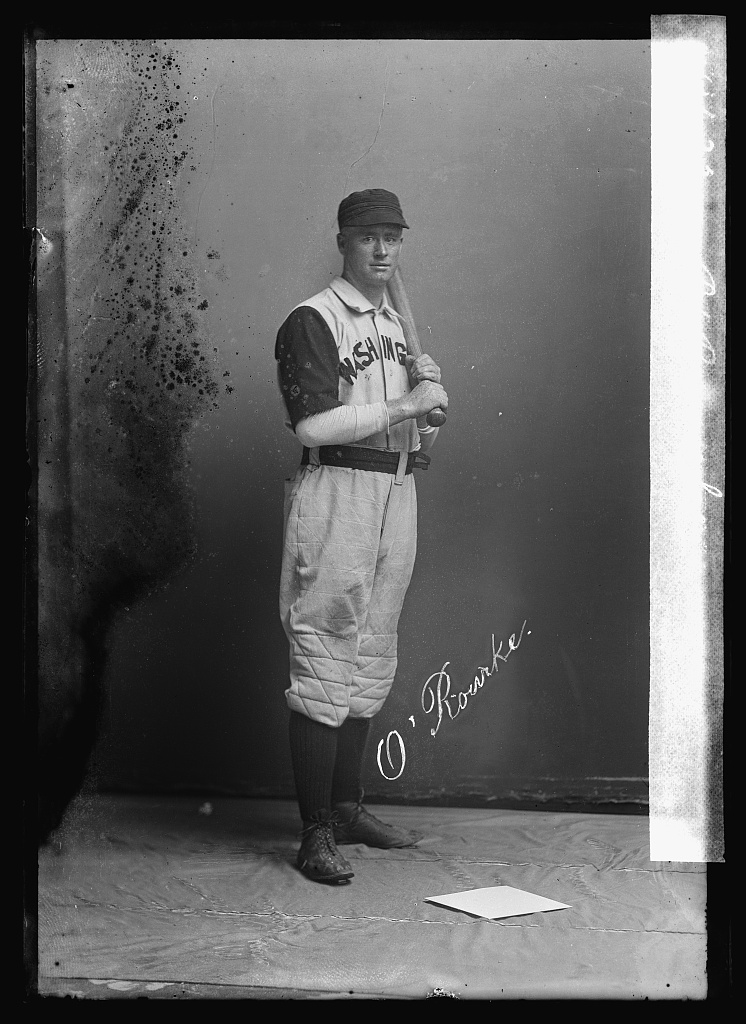 Tim O'Rourke in Washington Nationals uniform photographed by C. M. Bell Studio